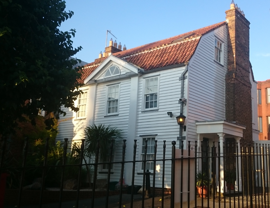 Picton House. Kingston upon Thames, viewed from the west.